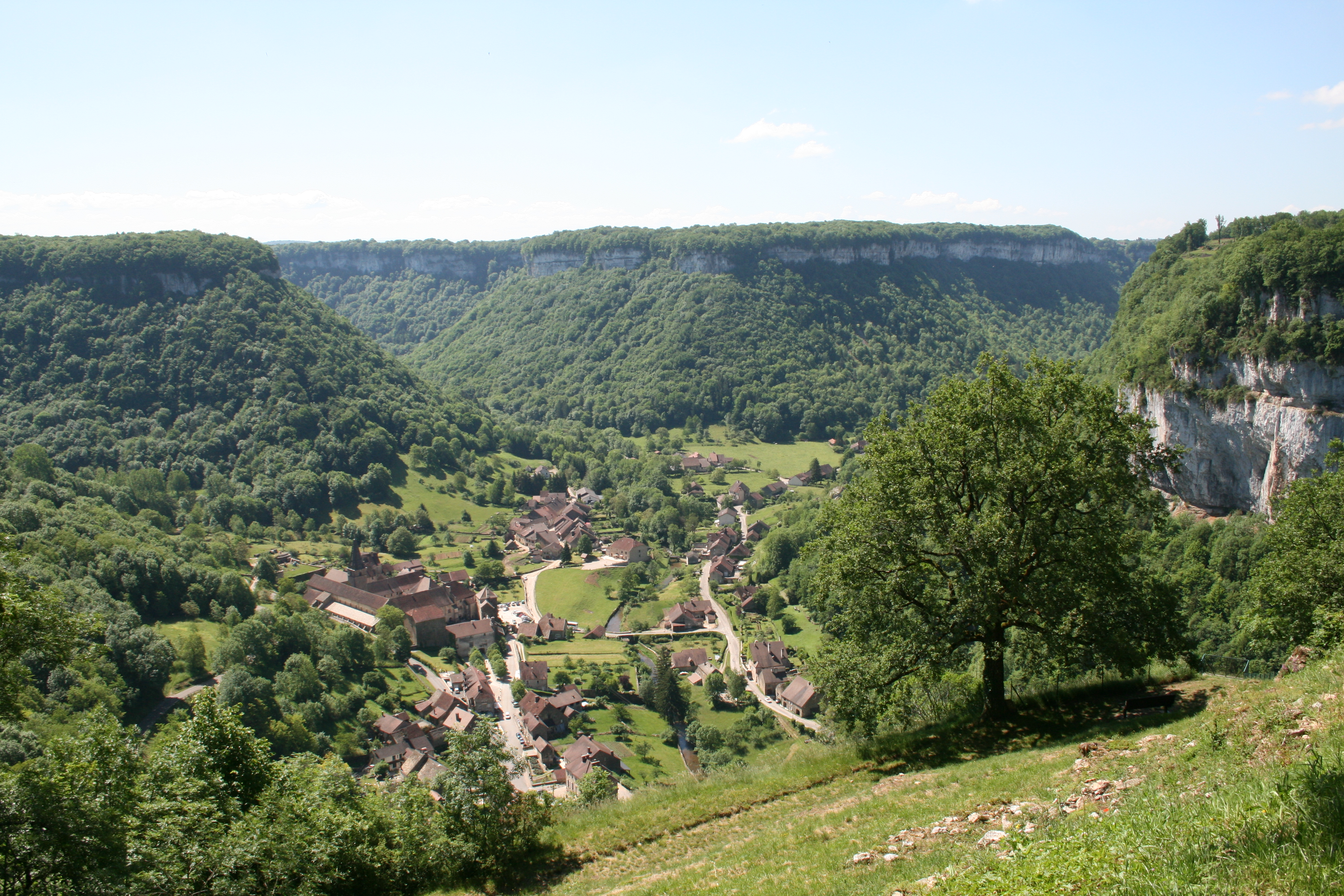 Baume-les-Messieurs (France), the village and the former Baume Abbey in the natural site of the steephead valley of the "cirque de Baume".